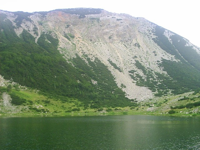 Šatorsko jezero lake in Štaor Mountains, Bosnia and Herzegovina